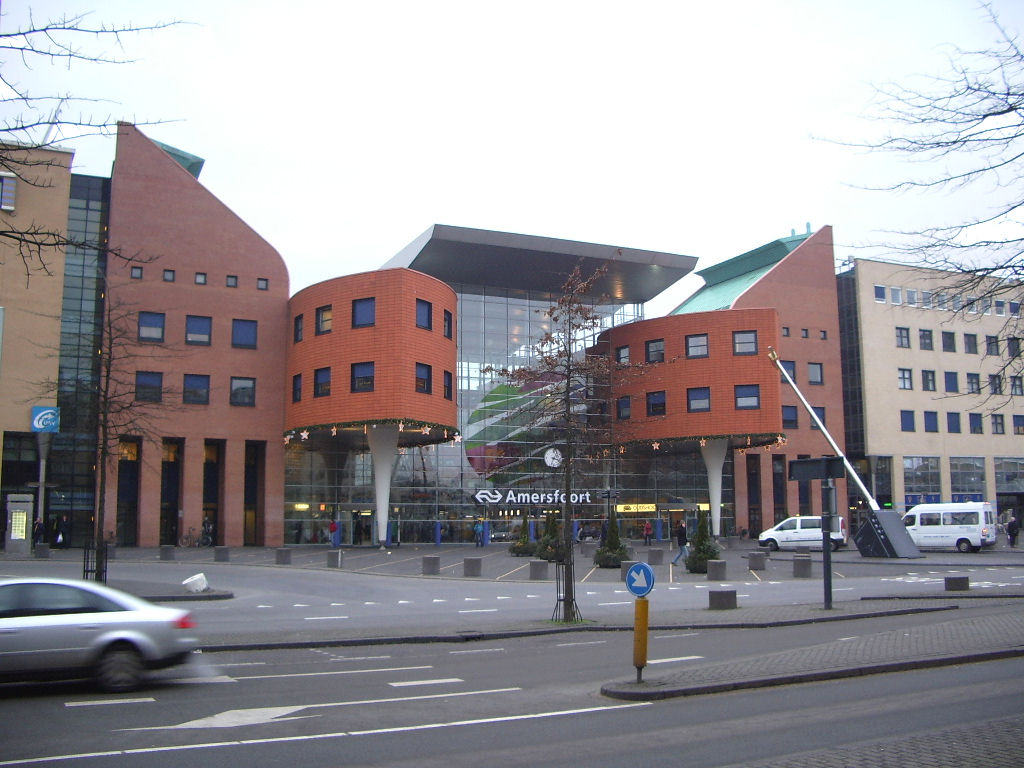 Railwaystation Amersfoort